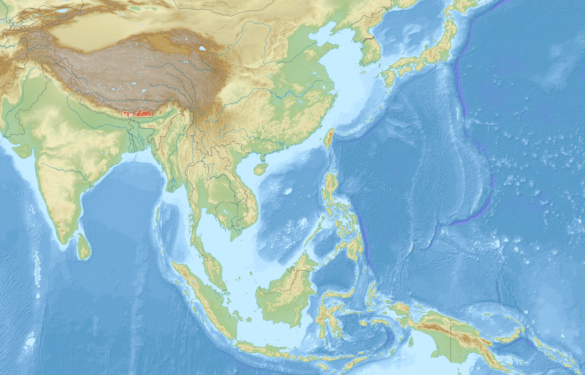 Distribution of Petaurista nobilis Projection: Equirectangular projection, strechted by 112.0%. Geographic limits of the map: N: 44.0° N S: -11.0° N W: 67.0° E E: 163.0° E GMT projection: -JX33.86666666666667cd/21.73111111111111cd GMT region: -R67.0/-11.0/163.0/44.0r GMT region for grdcut: -R67.0/-11.0/163.0/44.0r Relief: SRTM30plus. Made with Natural Earth. Free vector and raster map data @ .